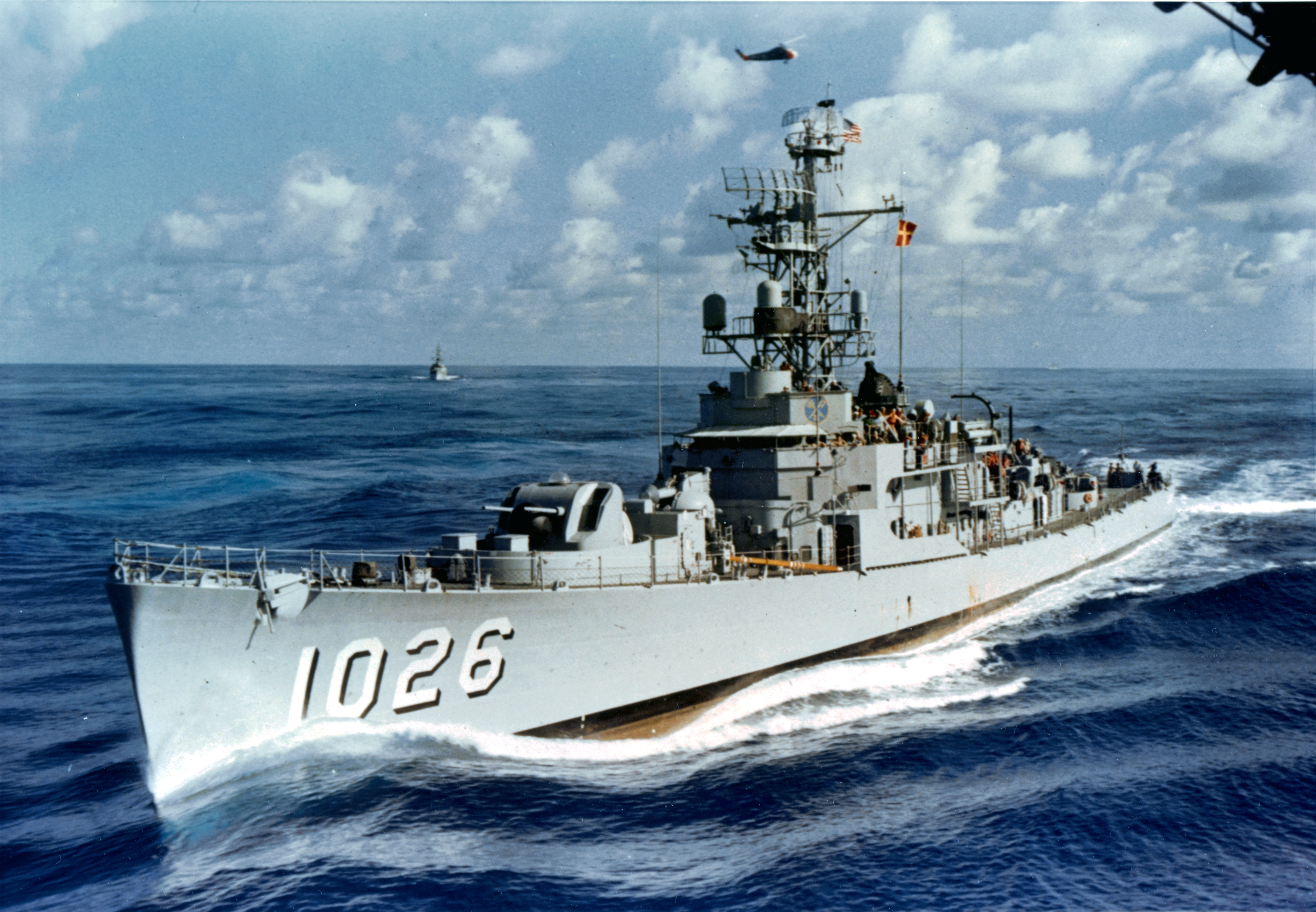 The U.S. Navy destroyer escort USS Hooper (DE-1026) off the fantail of the aircraft carrier USS Kearsarge (CVS-33), circa in 1960. She is pulling into position to receive fuel from the carrier while underway.